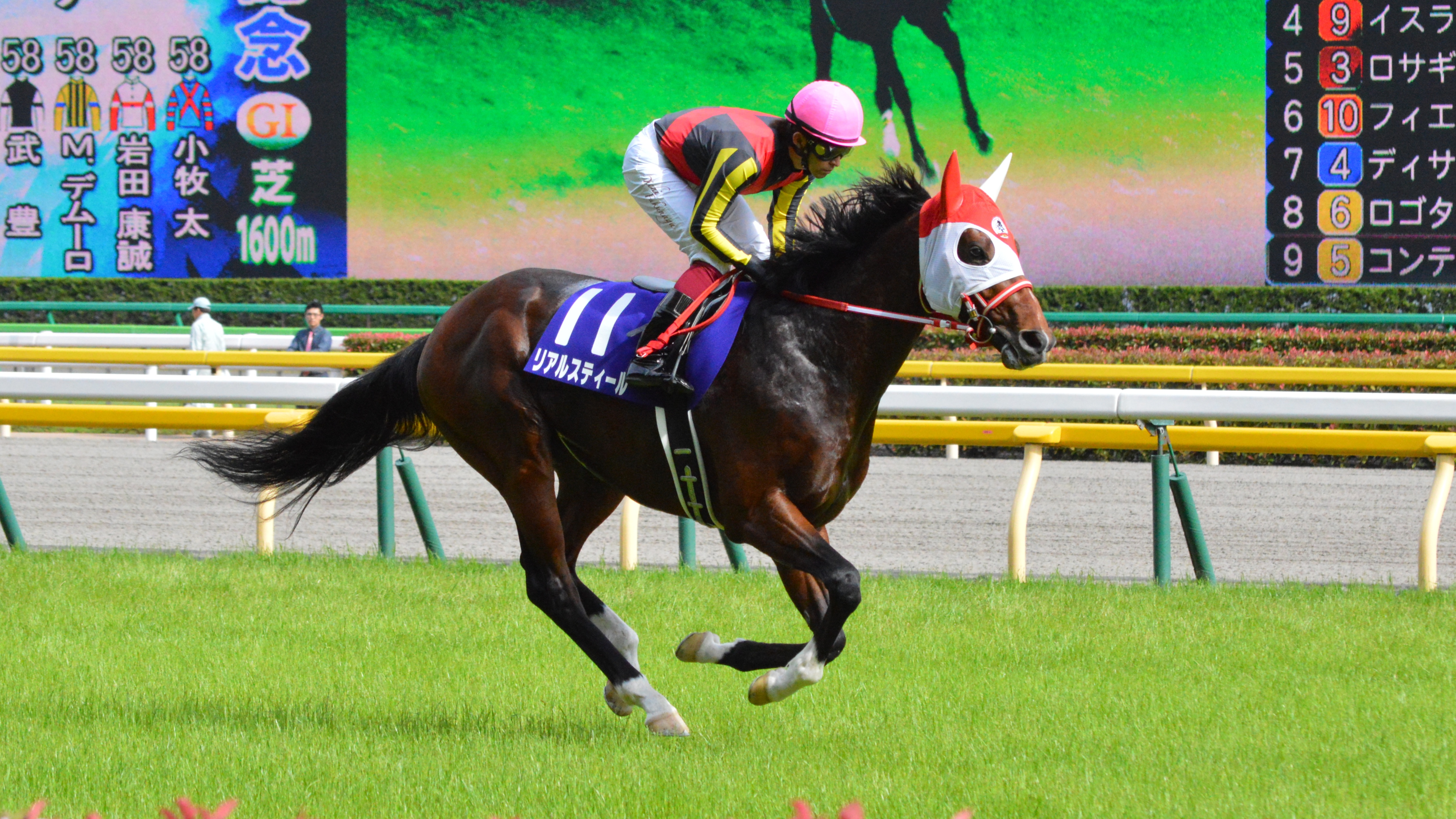 Japanese race horse Real Steel at Tokyo racecourse. Tokyo (JPN) 05 Jun 2016Yasuda Kinen (Grade 1) (3yo+) (Turf) 1m Firm RankHorse NameOddsAgeWgtJockeyTrainer1stLogotype (JPN)36/1H69-2Hironobu TanabeTsuyoshi Tanaka11thReal Steel (JPN)7/2C49-2Yuichi FukunagaYoshito YahagiOthers are omitted. (12 horses entered in a race.)